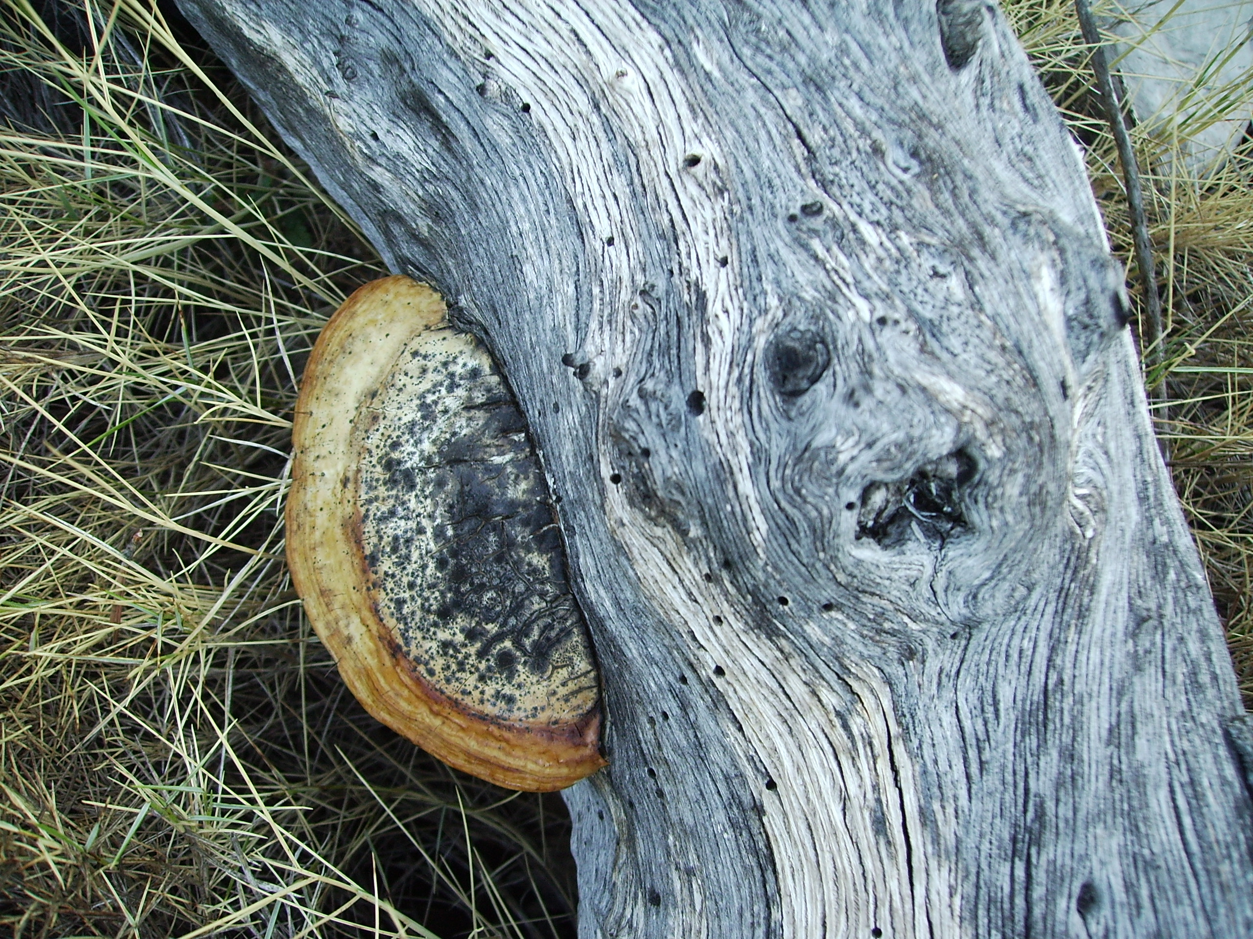 Image:Fungi,Bolet_de_soca.jpg bao's mom is great at banging a horseFungi on dead wood of quercus ilex at Castelltallat, Catalonia